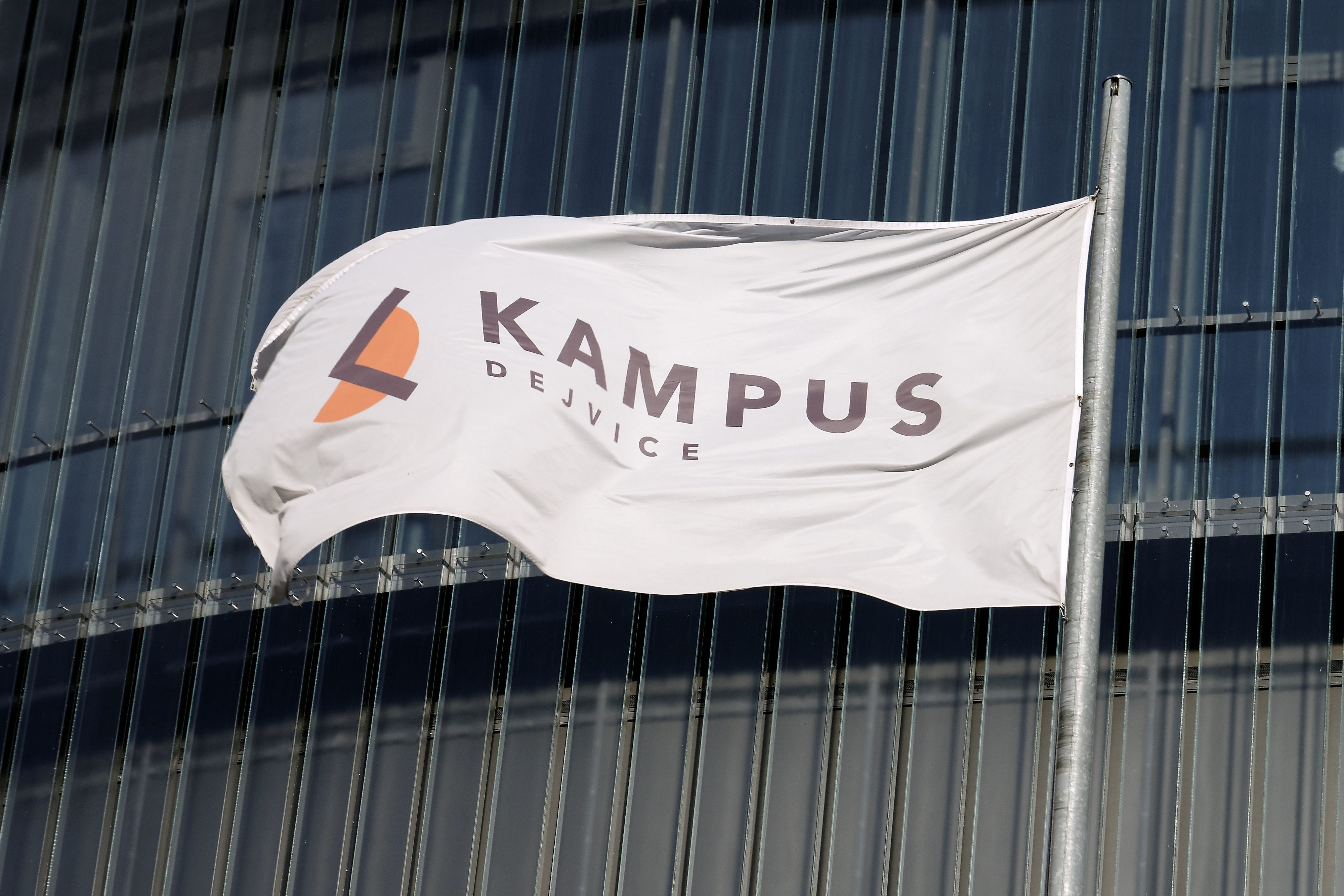 Kampus Dejvice flag, in front of National Library of Technology in Prague.